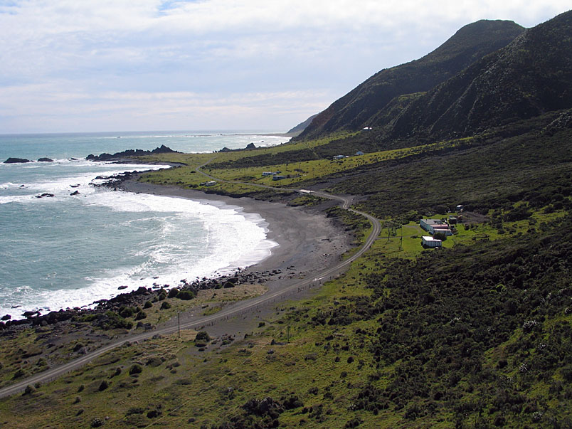 View of the coast west of Cape Palliser, in New Zealand's Wairarapa district.